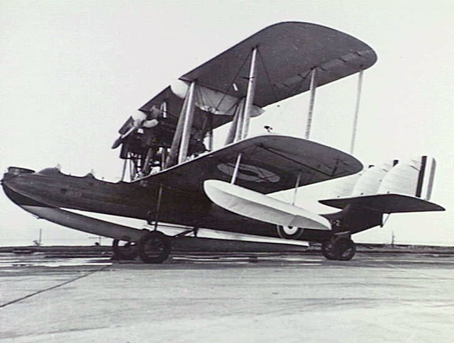 Australian War Memorial (AWM) catalog number 044869: A Royal Australian Air Force Supermarine Southampton aircraft at RAAF Base Point Cook in 1939